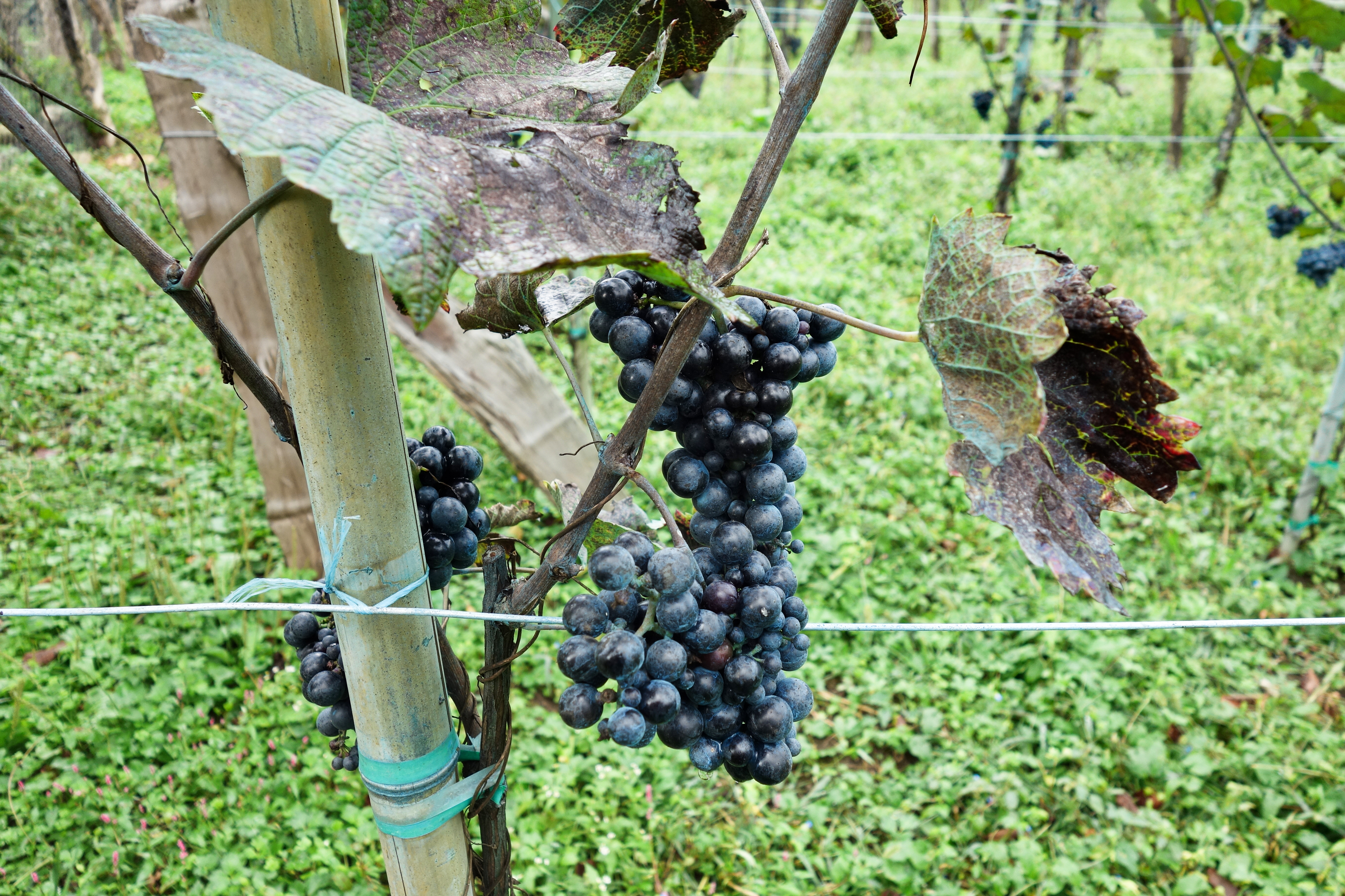 Ojaleshi grape in the beginning of October, in Martvili, Georgia